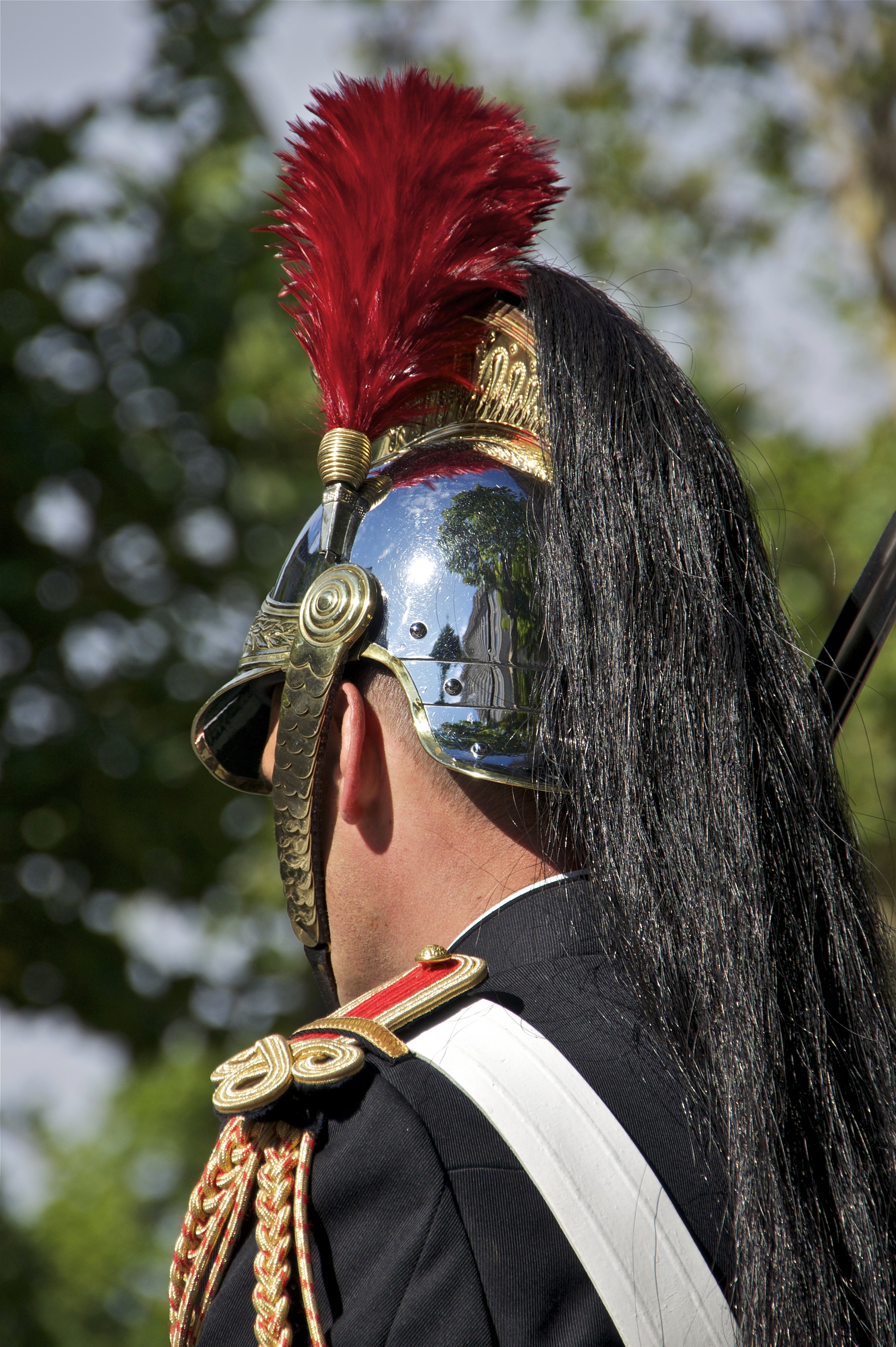 Back three-quarter view of the helmet of a cavalryman of the regiment of the French Garde Républicaine during the Bastille Day military parade. Paris, France, July 14 2012.